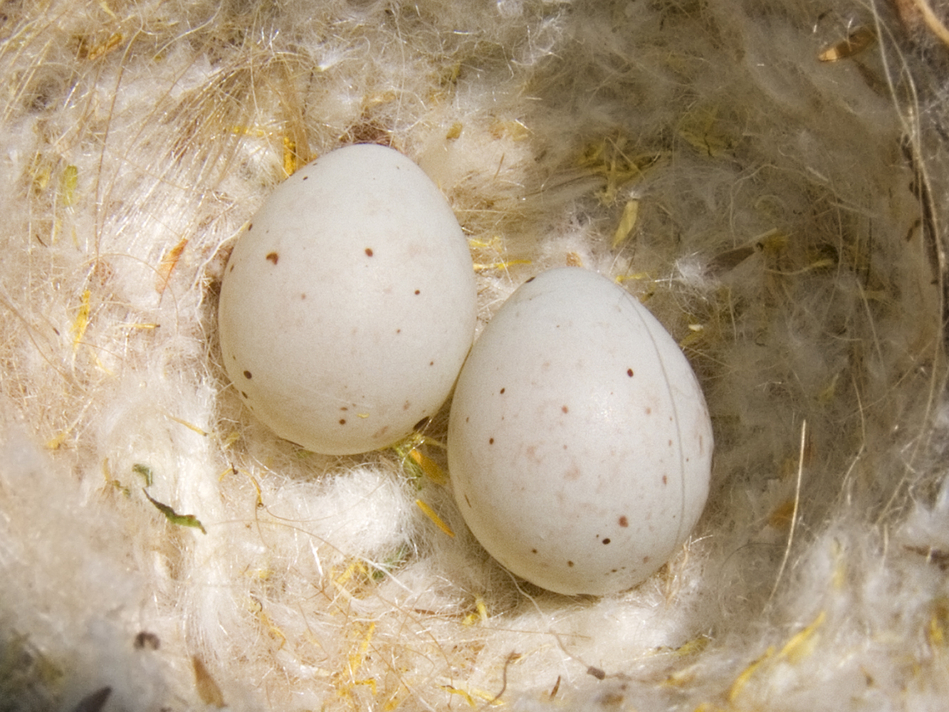 Eggs of the European Gold Finch (Carduelis carduelis). Taken in an Apple orchard where the nest was abandoned due to heavy rain days before